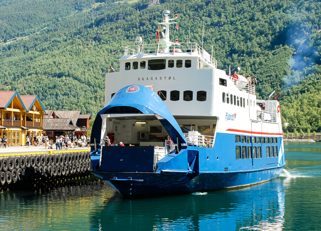 MF Skagastøl in Flåm in 2008